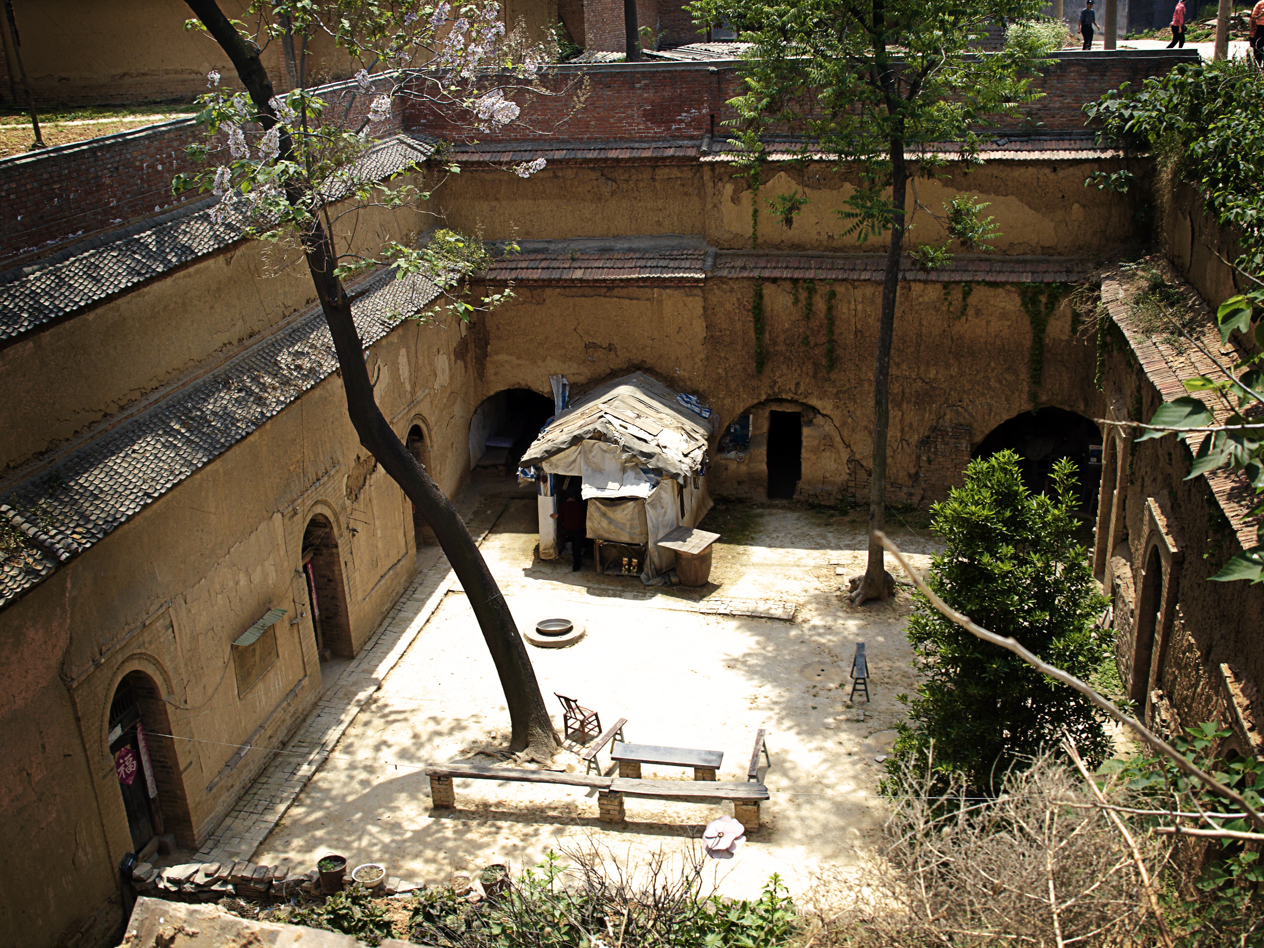 Luoyang, Henan. The cave dwellers will dig a courtyard that is about 10 meters deep. After that, rooms are dug off the main courtyard. This is a typical sunken courtyard complex, or pit dwelling in Shaanxi or Henan. Most of the time the dweller live in the caves not out of poverty, but for practicality.